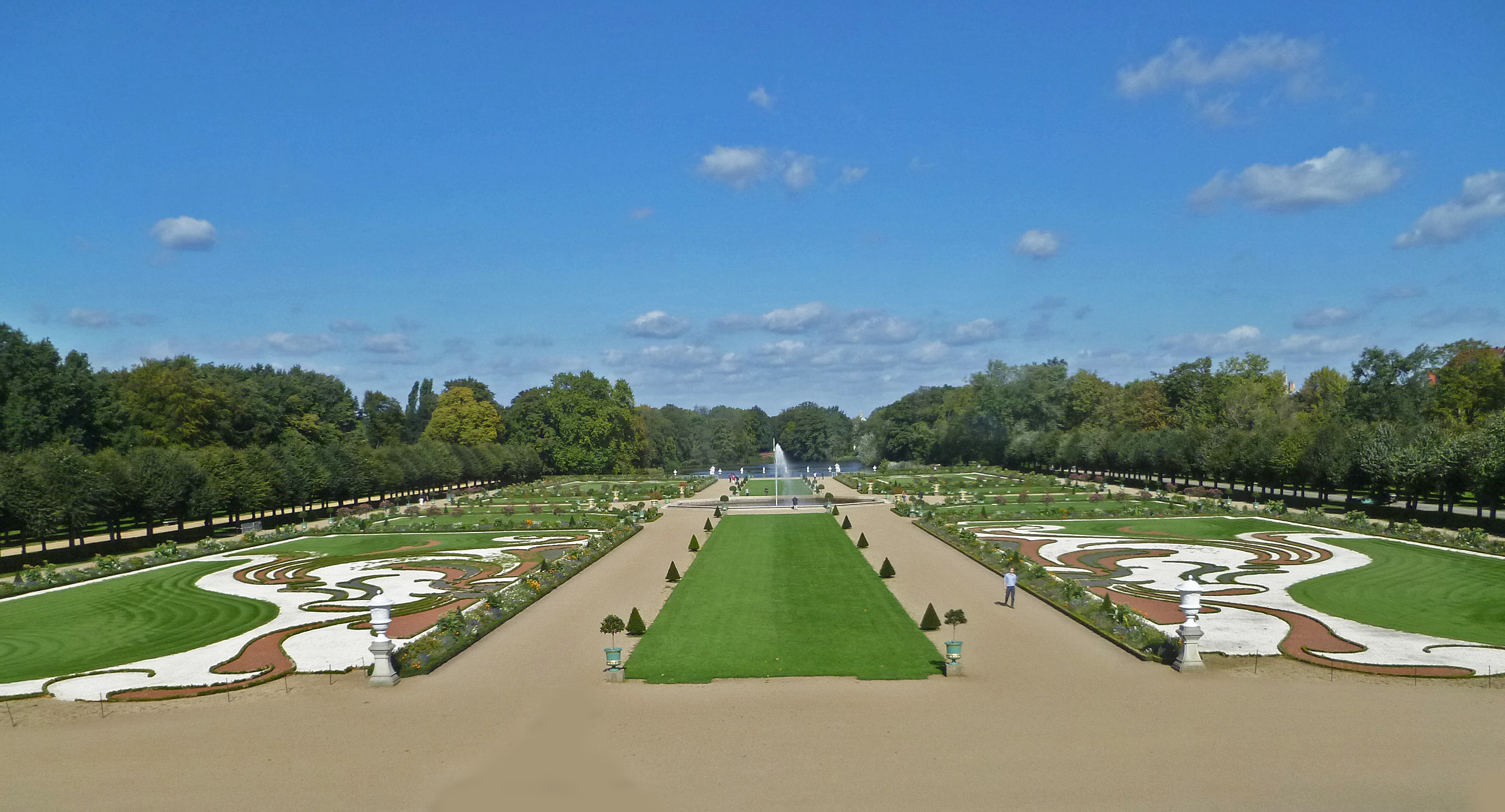 Garden of the Charlottenburg Palace, Berlin, Germany